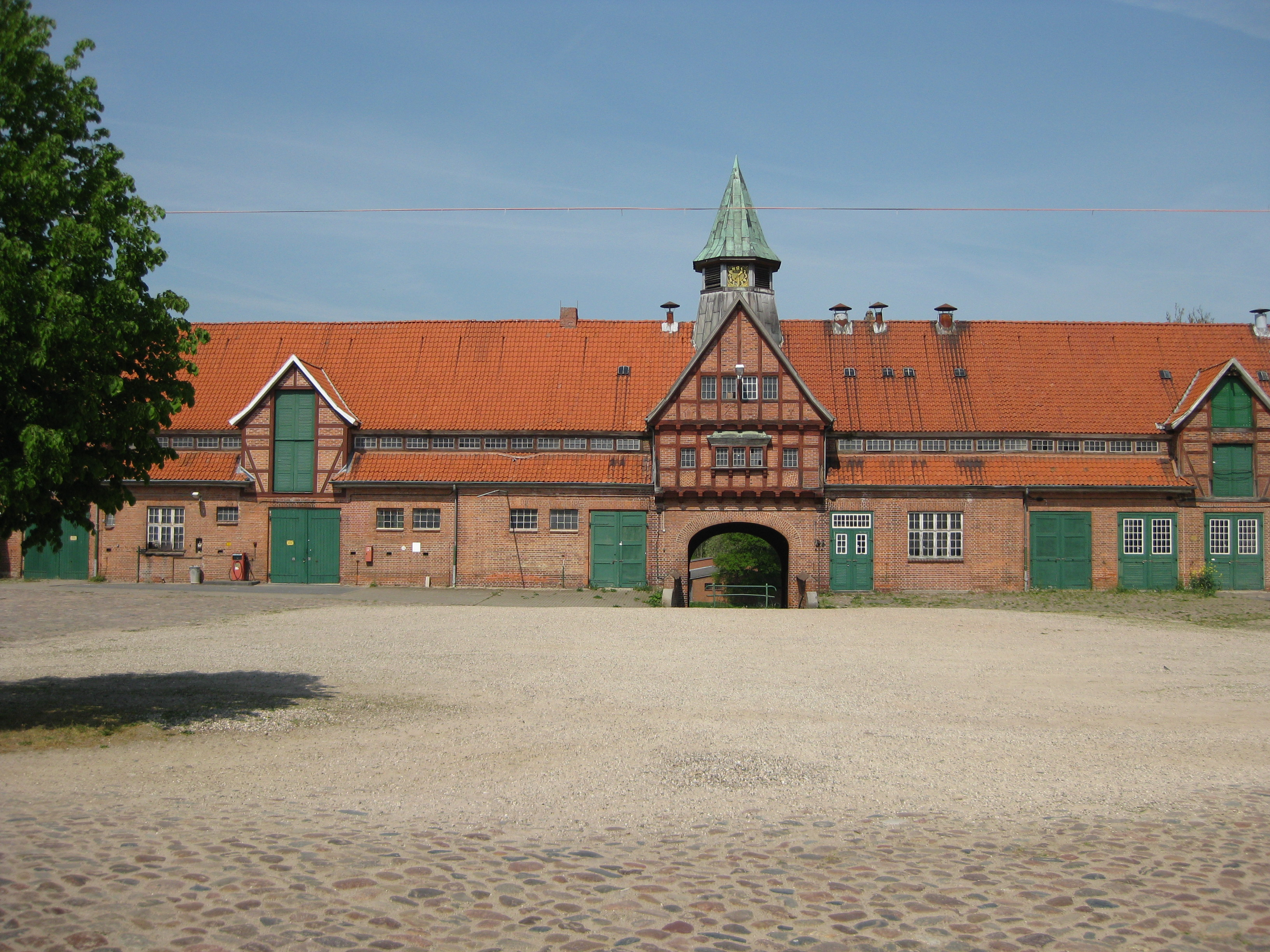 Institut für Ökologischen Landbau of the Johann Heinrich von Thünen-Institut at Gut Trenthorst in Westerau municipality, Stormarn district.